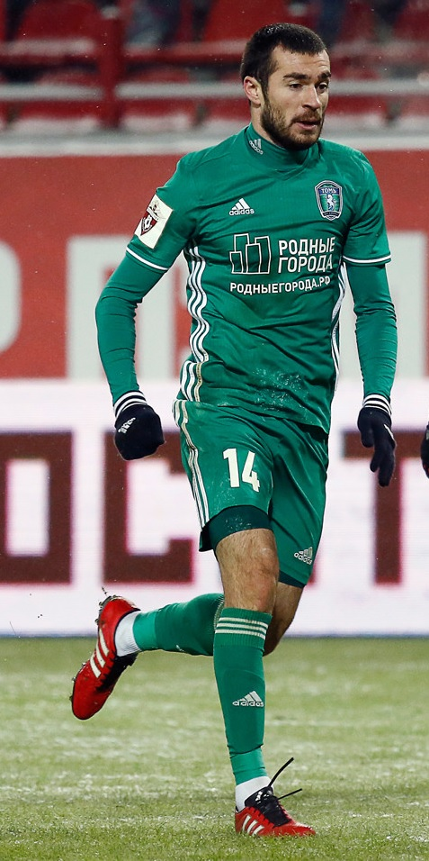 Aslan Dudiyev with FC Tom Tomsk in a game against FC Lokomotiv Moscow.